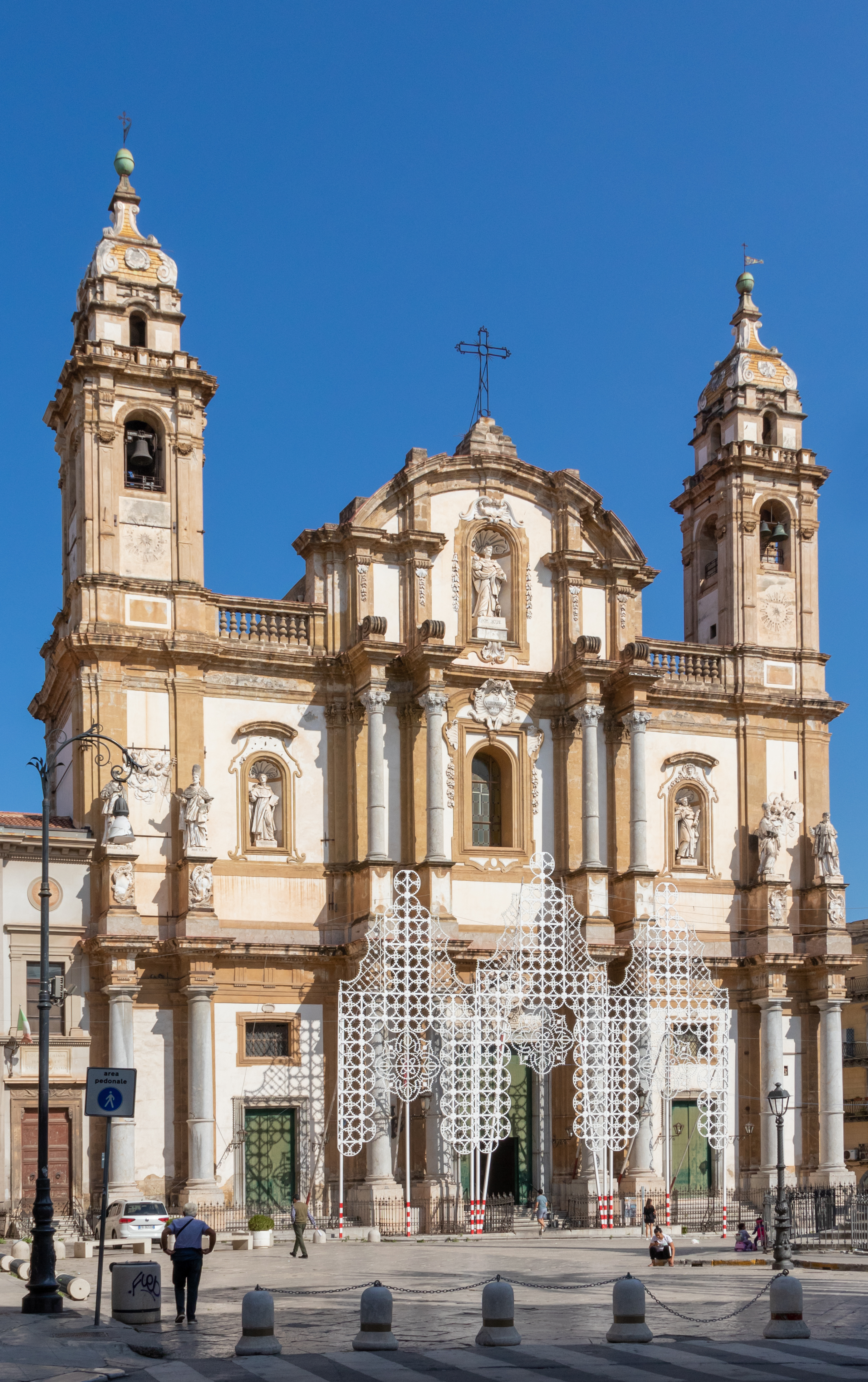 San Domenico (Palermo) - Facade